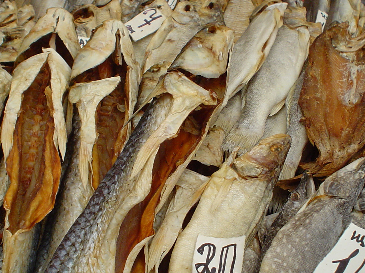 Dried fish in the Pryvoz Market, Odessa, Ukraine